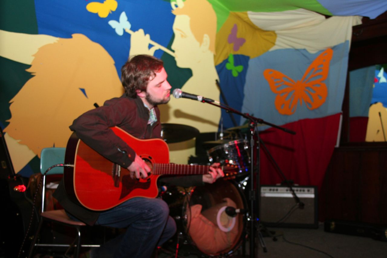 Voice of the Seven Woods performing at Folkyeah Spring Festival at the Fernwood Resort in Big Sur, California on April 20, 2007.